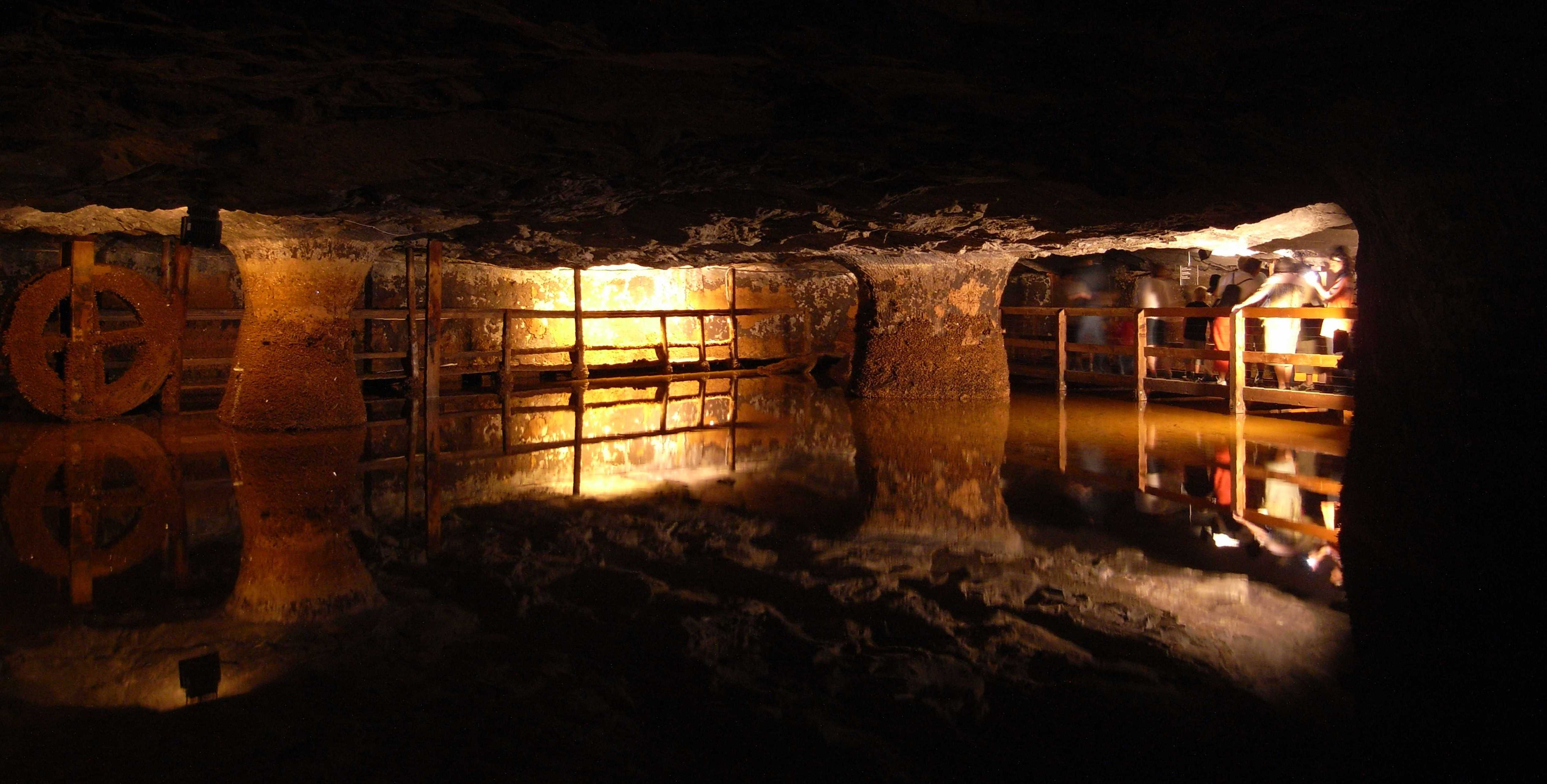 Bex, salt mine (Canton Vaud, Switzerland)